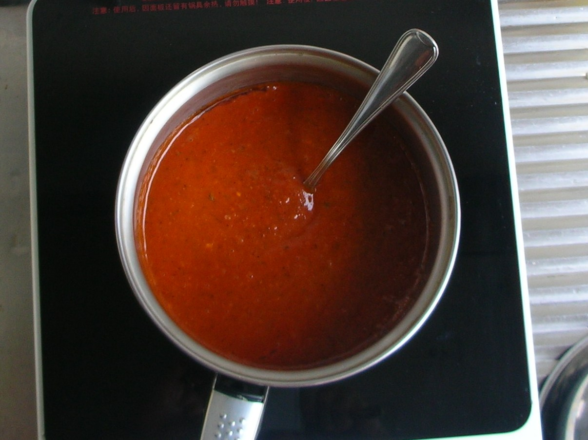 Vegetarian Neapolitan sauce with tomates, olive oil, garlic, onion, celery, carrot, oregano and thyme.